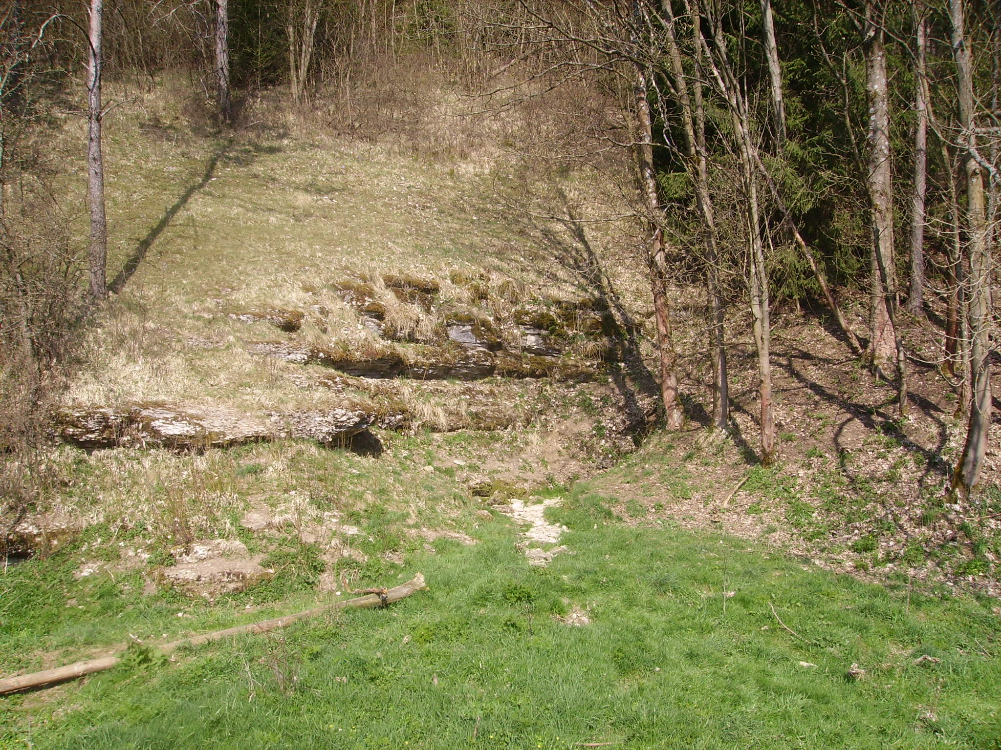 Heroldsmühle in Landkreis Bamberg, Germany